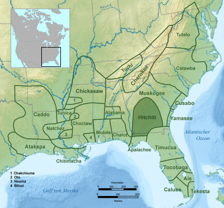 Tribal territory of Hitchiti during seventeenth century